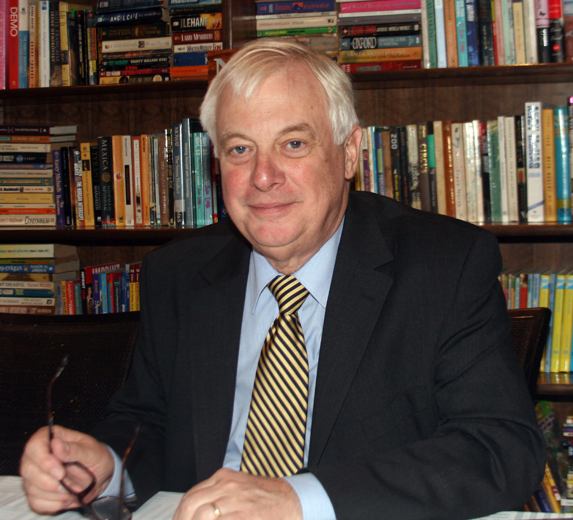 Former Governor of Hong Kong, Chris Patten, in Beijing, China.